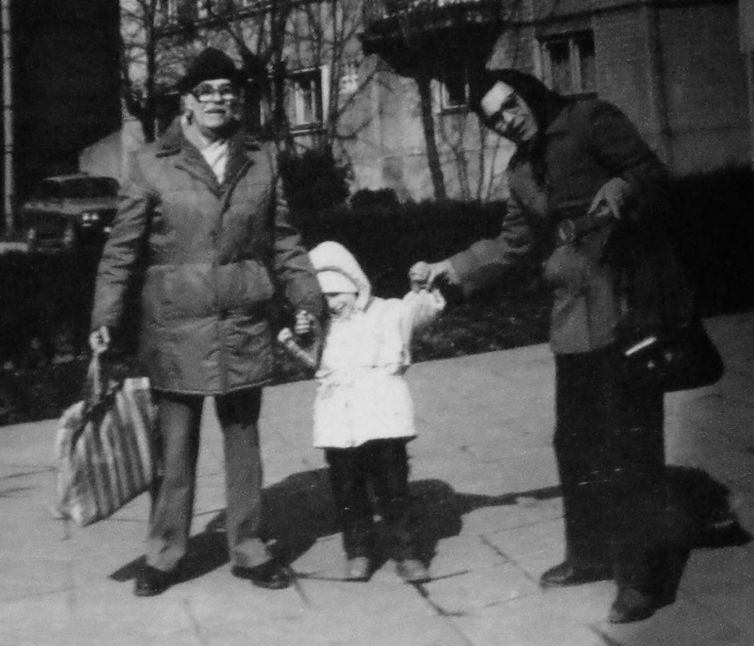 Nádai István (hungarian actor from Romania) with his whife, Márta